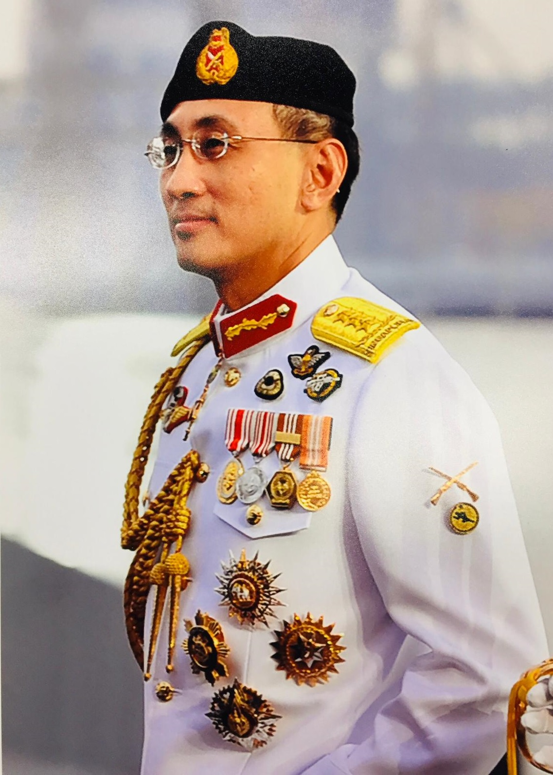 Singapore Armed Forces Chief of Defence Force, Lieutenant-General Desmond Kuek, at the National Day Parade 2009.